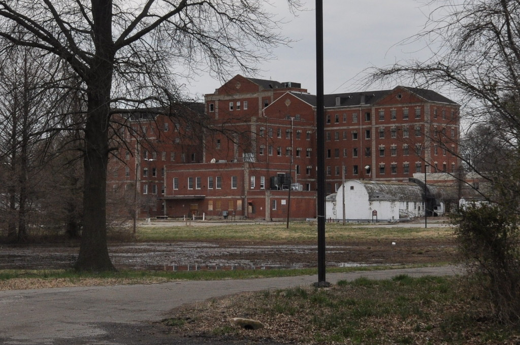 The former Fort Howard VA Hospital, Fort Howard, Maryland.